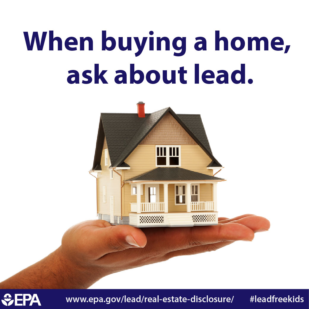 Infographic, "When buying a home, ask about lead."